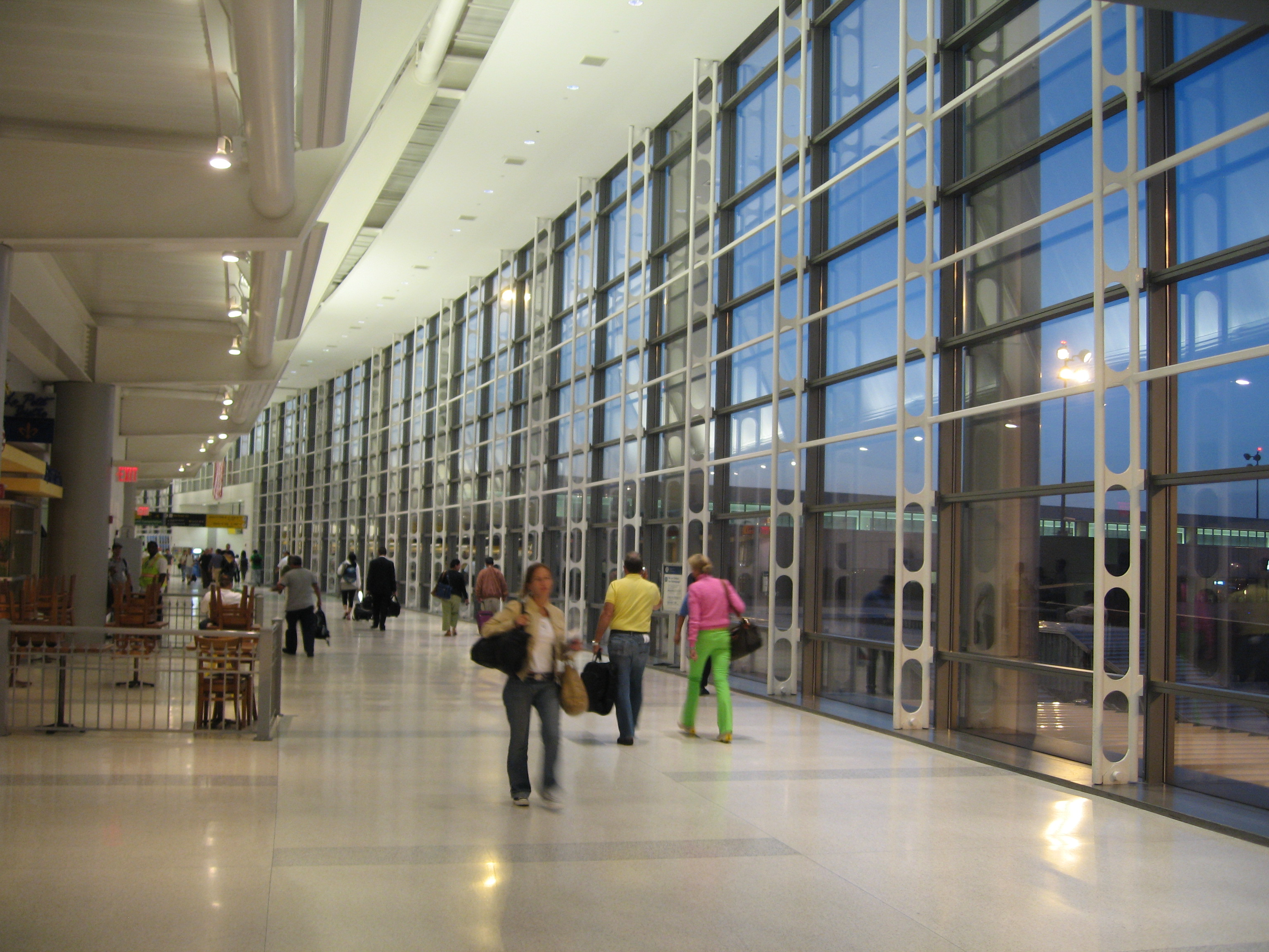 Inside Terminal C, Newark Airport